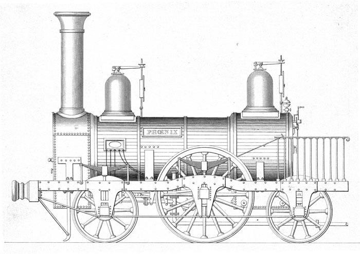 Edington and Son 2-2-2 locomotive for the Glasgow, Paisley, Kilmarnock and Ayr Railway